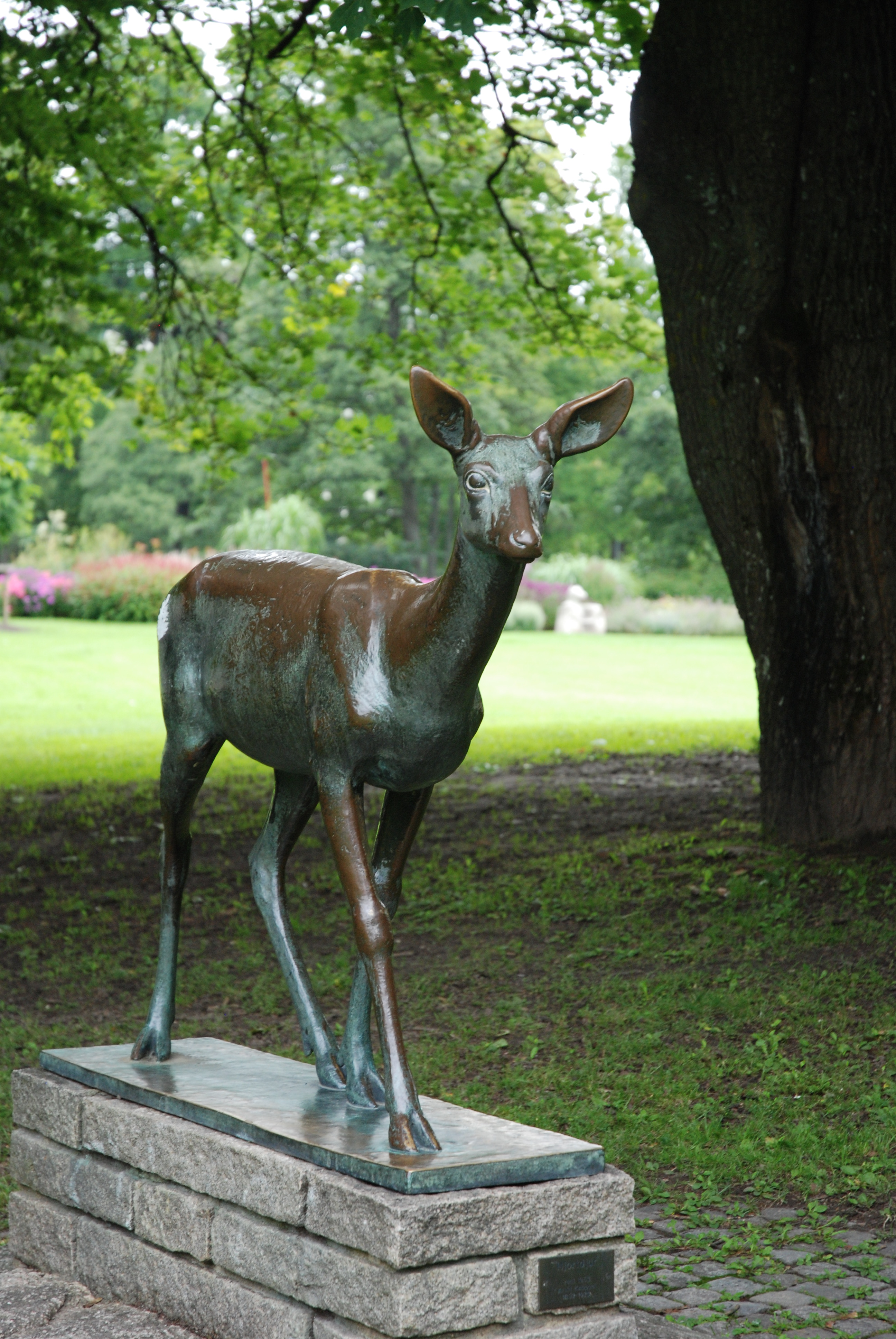 Hjortdjur av Arvid Knöppel, Stadsparken i Örebro